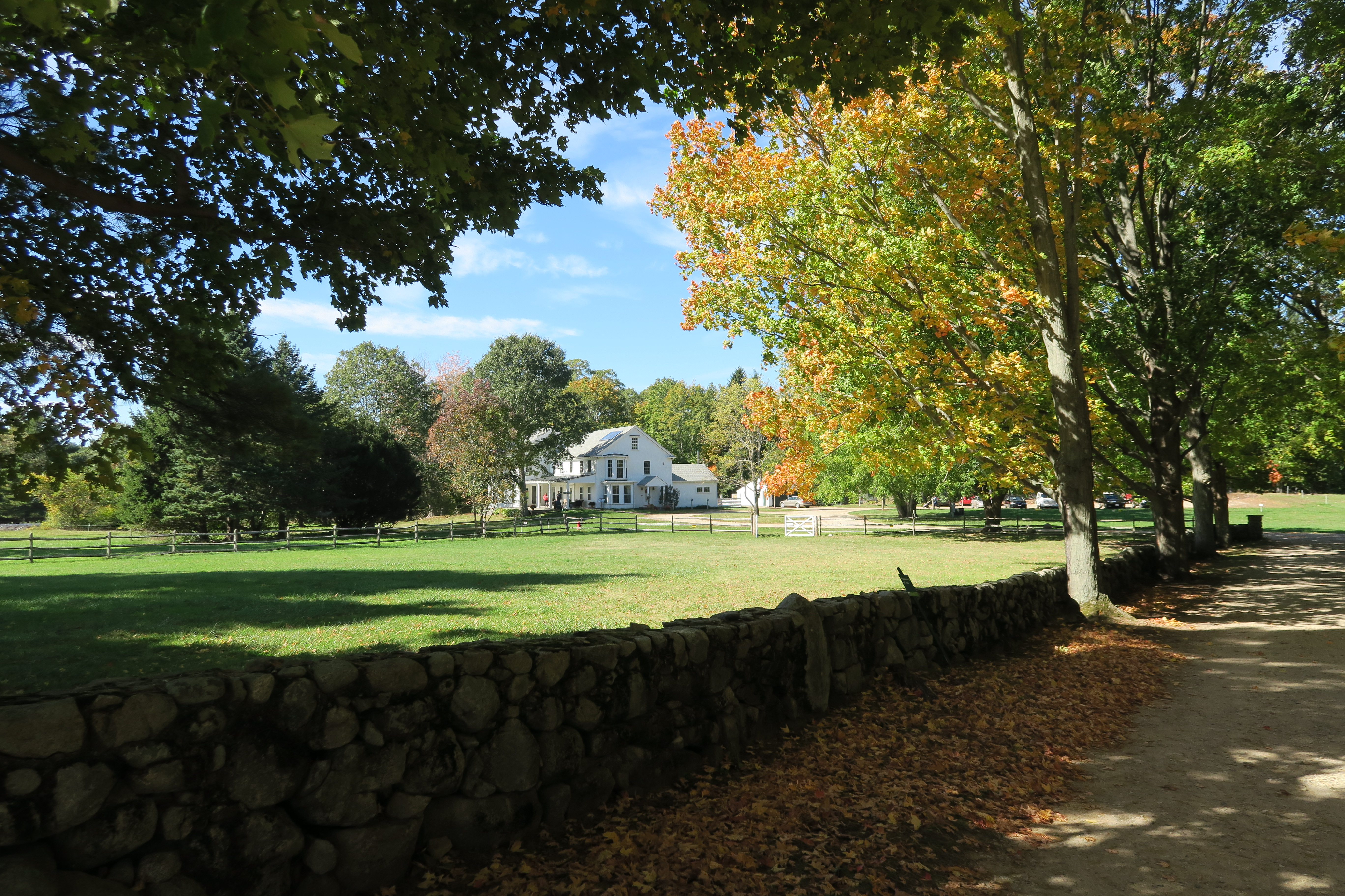 Appleton Farms, 2015, Ipswich Massachusetts